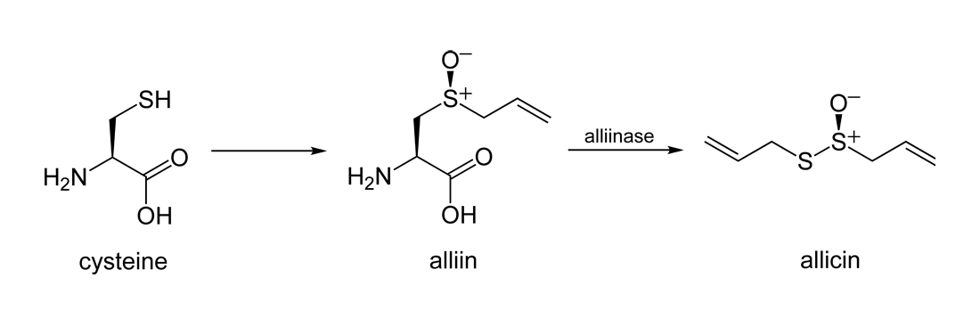 Reaction scheme for the conversion: cysteine → alliin → allicin